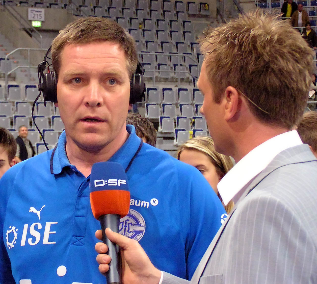 Alfred Gislason, coach of VfL Gummerbach, on April 18th 2007 in Mannheim, SAP-Arena (Germany) in an interview